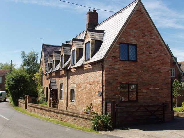 Old School House, Piddington, Oxfordshire. It was built as a National School in 1863. It is now a private home.